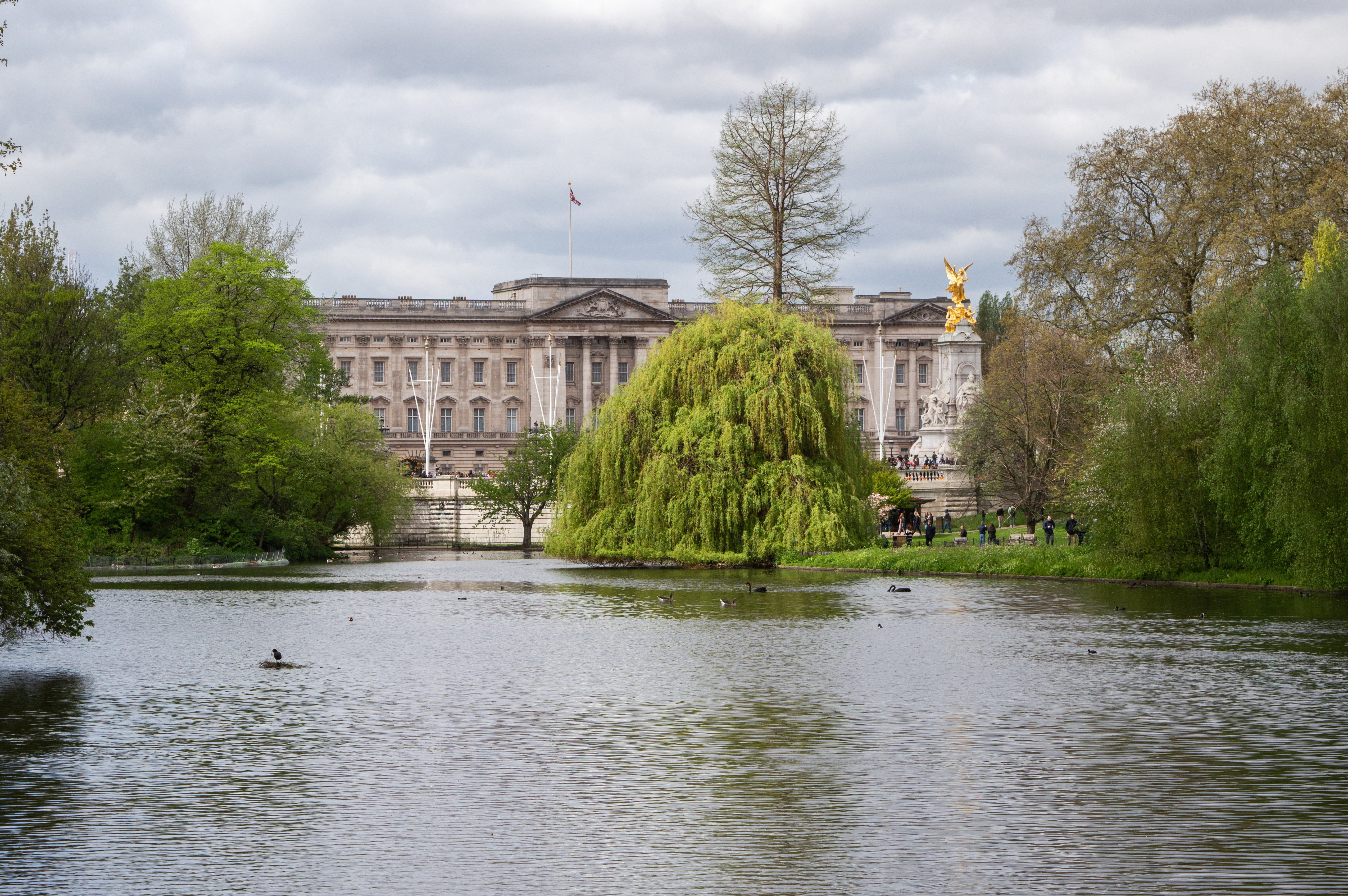 The St James's Park Lake with the northeastern facade of Buckingham Palace and the Victoria Memorial in the background, seen from the Blue Bridge.